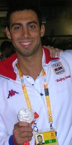 Milorad Čavić is a Serbian swimmer and an Olympic silver medalist in 2008.